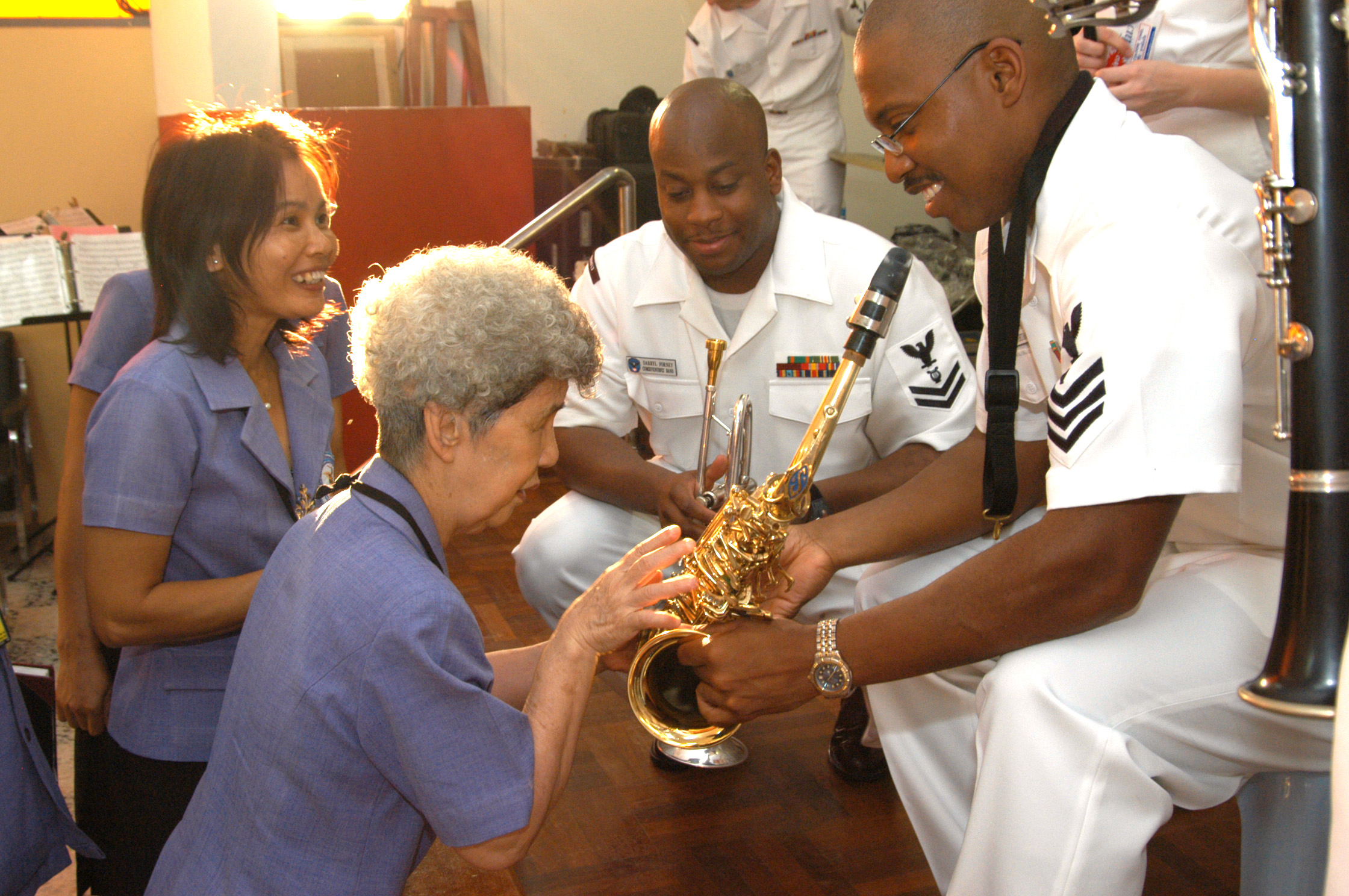 Pattaya, Thailand (Feb. 27, 2006) - Seventh Fleet band member Musician 1st Class Frank Newton demonstrates how his saxophone keys operate to Aurora Sribuapun, headmaster of the Pattaya Redemptorist School for the Blind following a goodwill concert by the U.S. Seventh Fleet Band. The band played an assortment of tunes ranging from John Phillip Sousa marches to “The Star-Spangled Banner” for dozens of blind and handicapped children, and local citizens. The band is currently embarked aboard the 7th Fleet Command ship USS Blue Ridge (LCC 19), which is on a routine deployment in the Asia-Pacific region in support of the Navy’s commitment to diplomacy and positive international relations. U.S. Navy photo by Journalist 2nd Class Patrick Dille (RELEASED)